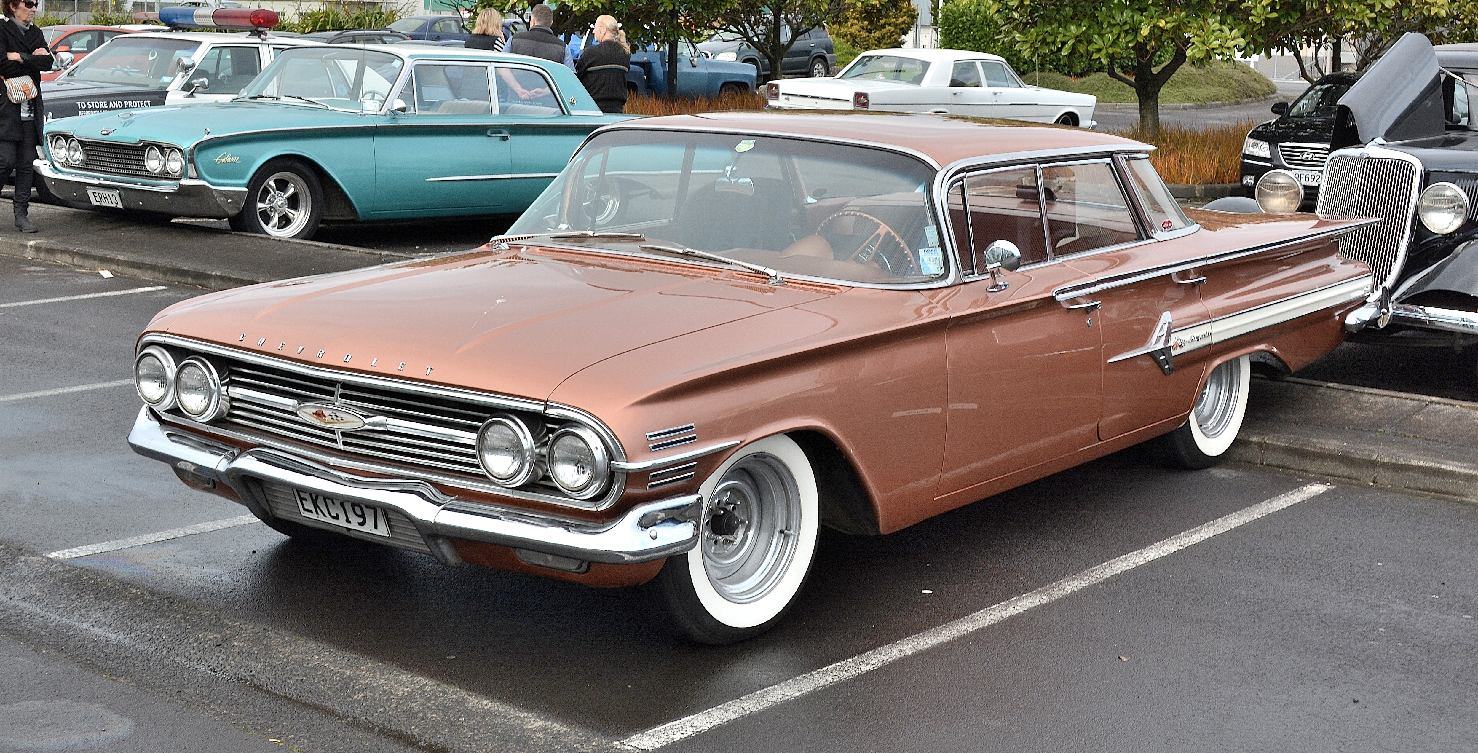 Manakua,South Auckland.New Zealand